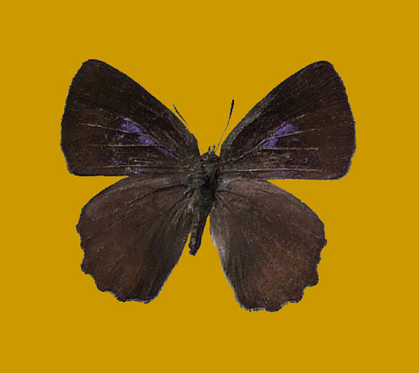 Deramas tomokoae, female upperside